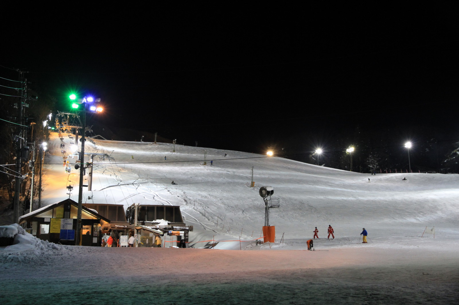 Nakiyama Happo-one Hakuba-village, Nagano, Japan